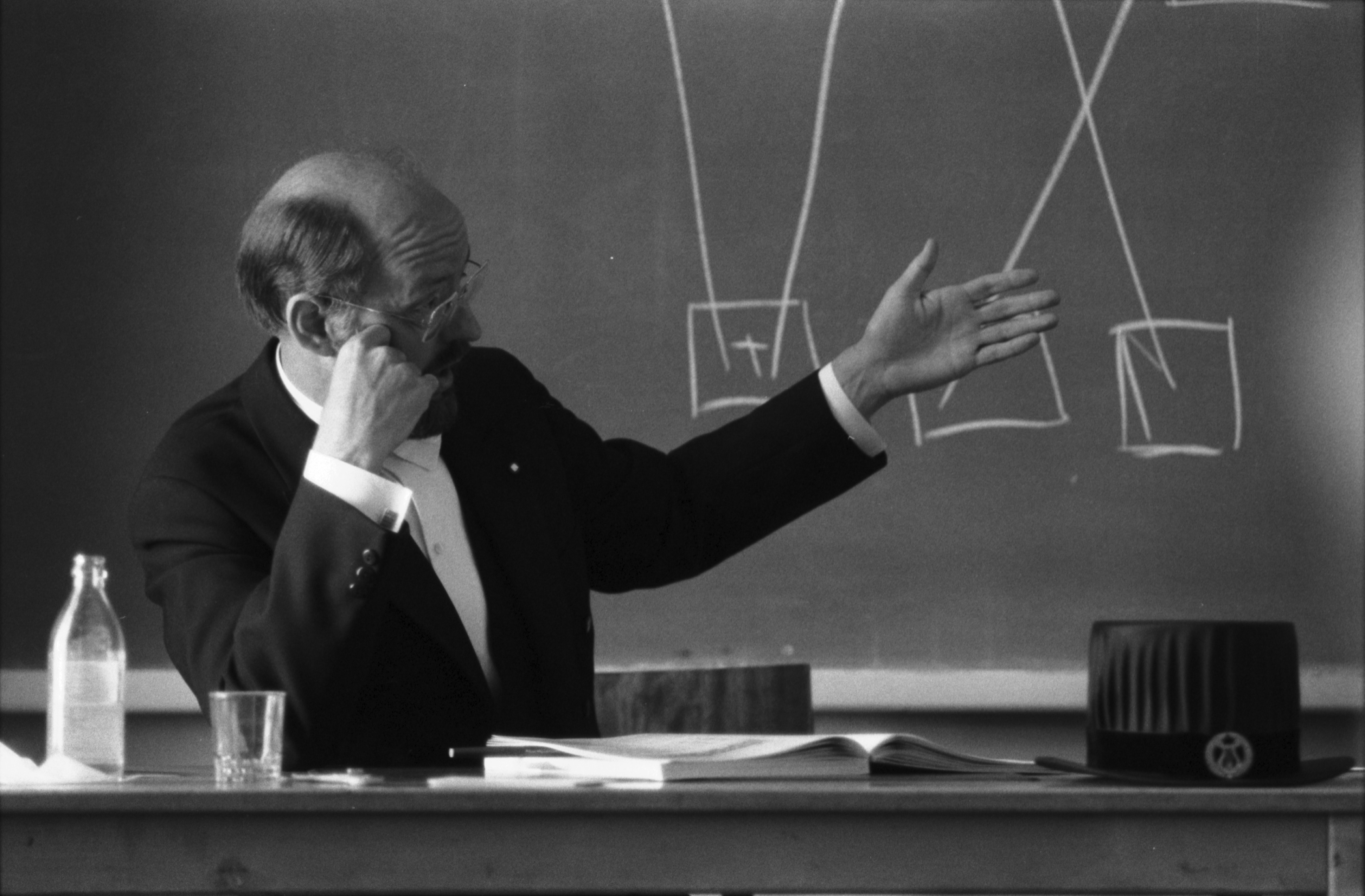 Photograph of the Finnish art historian Henrik Lilius (1939–).